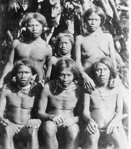 A mixed group of Shompen people in 1886. Great Nicobar Island.